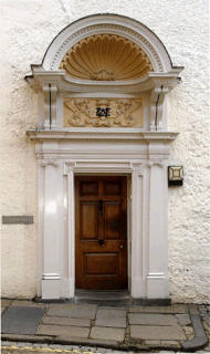 St Cuthbert's Society: door